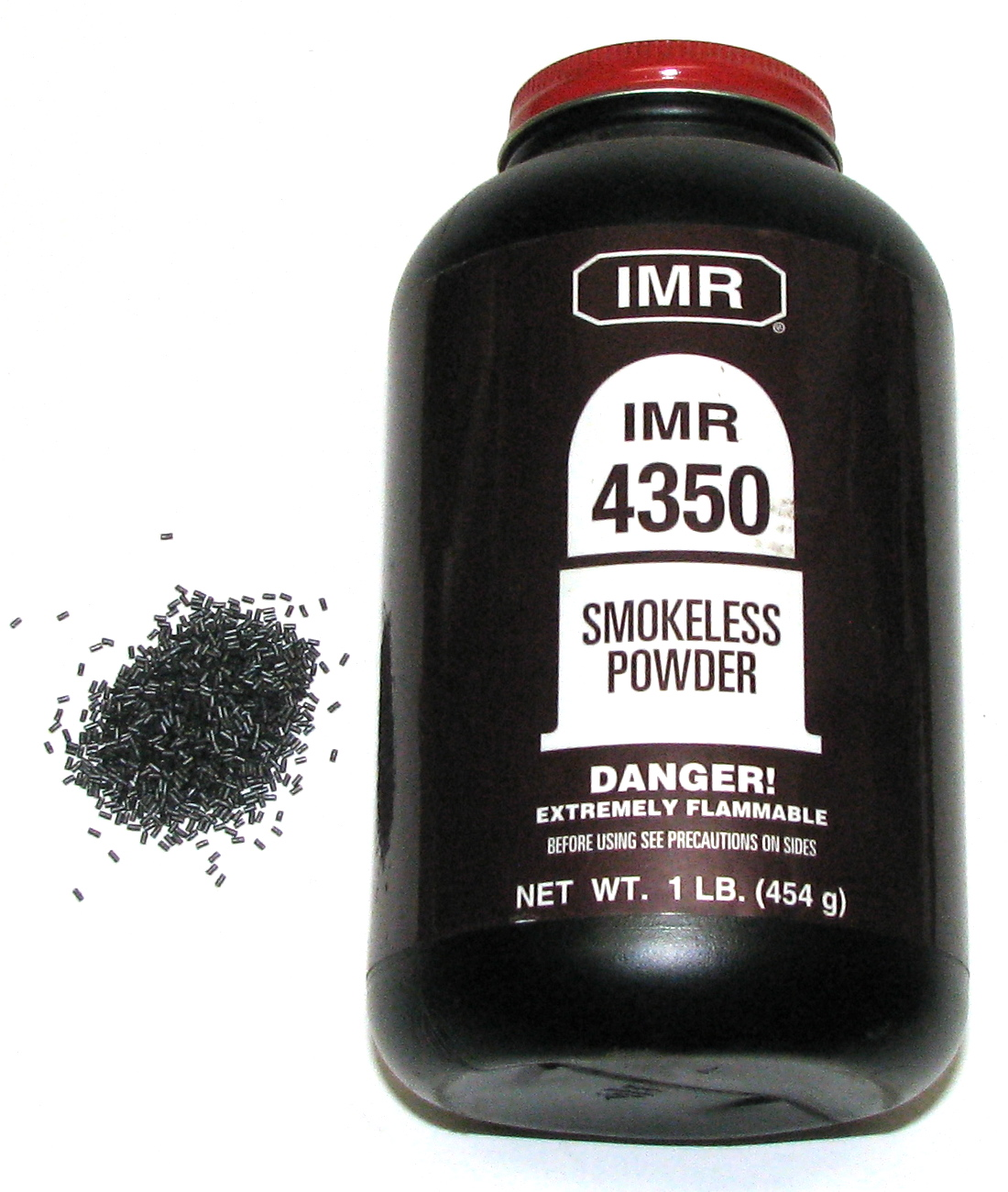 IMR 4350 smokeless powder for firearms handloading